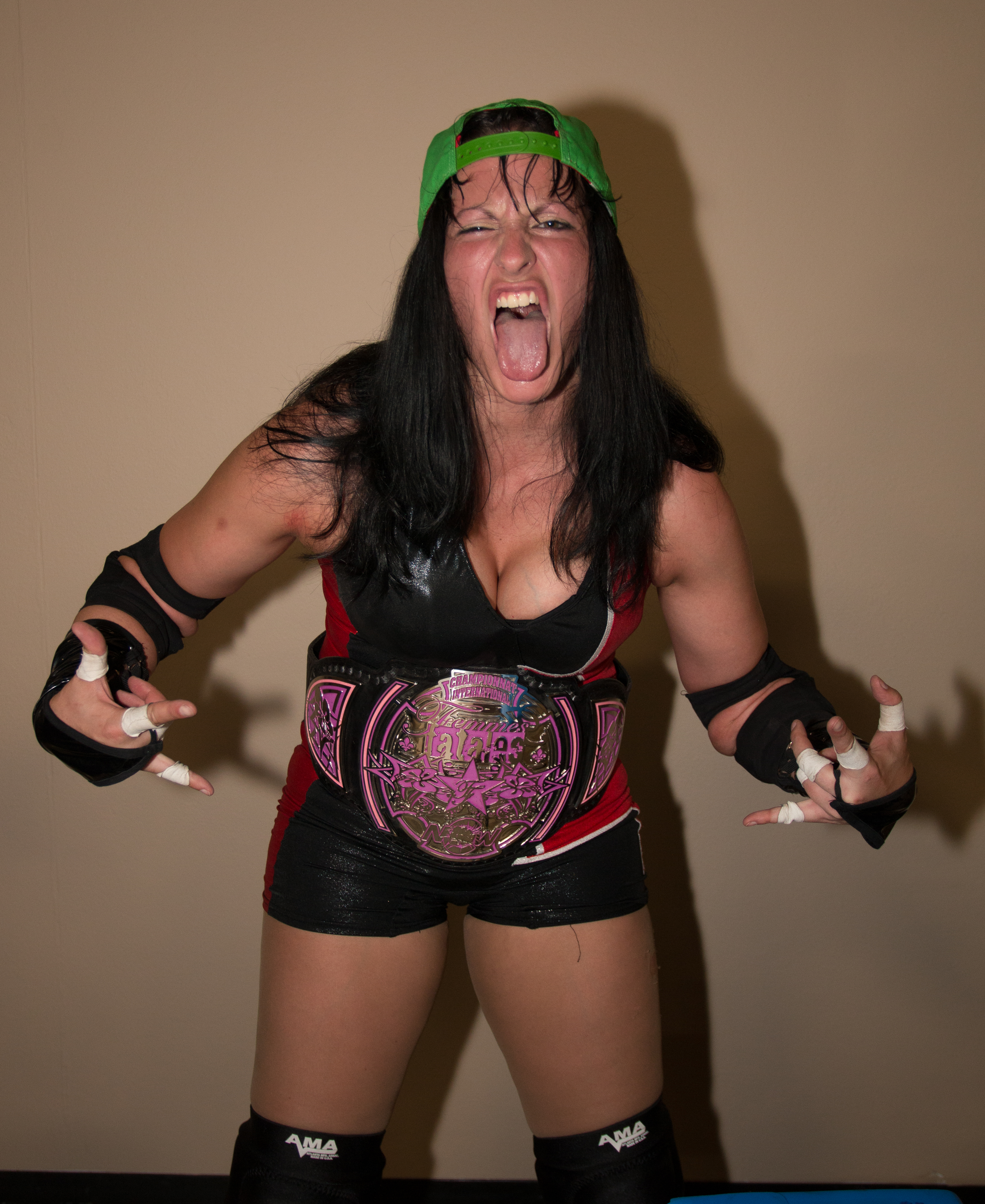 Independent wrestler Courtney Rush posing with the nCw Femme Fatales championship belt post-match at an independent wrestling show in Angus, ON